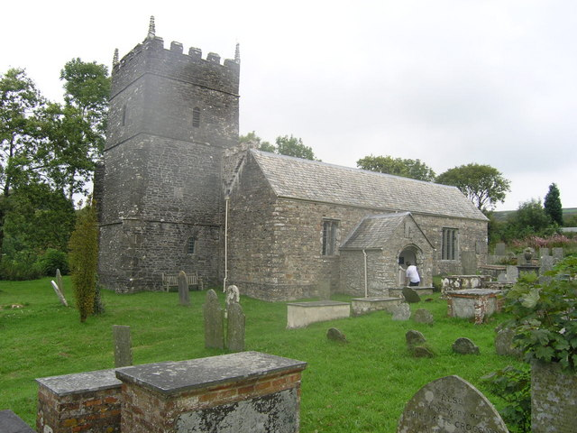 Parracombe Old church of St Petrock. is now in the care of the Churches Conservation Trust - full of C18 fittings and in a time-warp, thanks to the new church being built in the village.